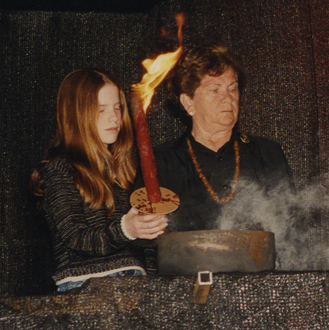 Chavka Folman Raban with her granddaughter